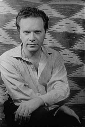 Portrait of Alfred Drake (1914–1992), American Actor and Vocalist